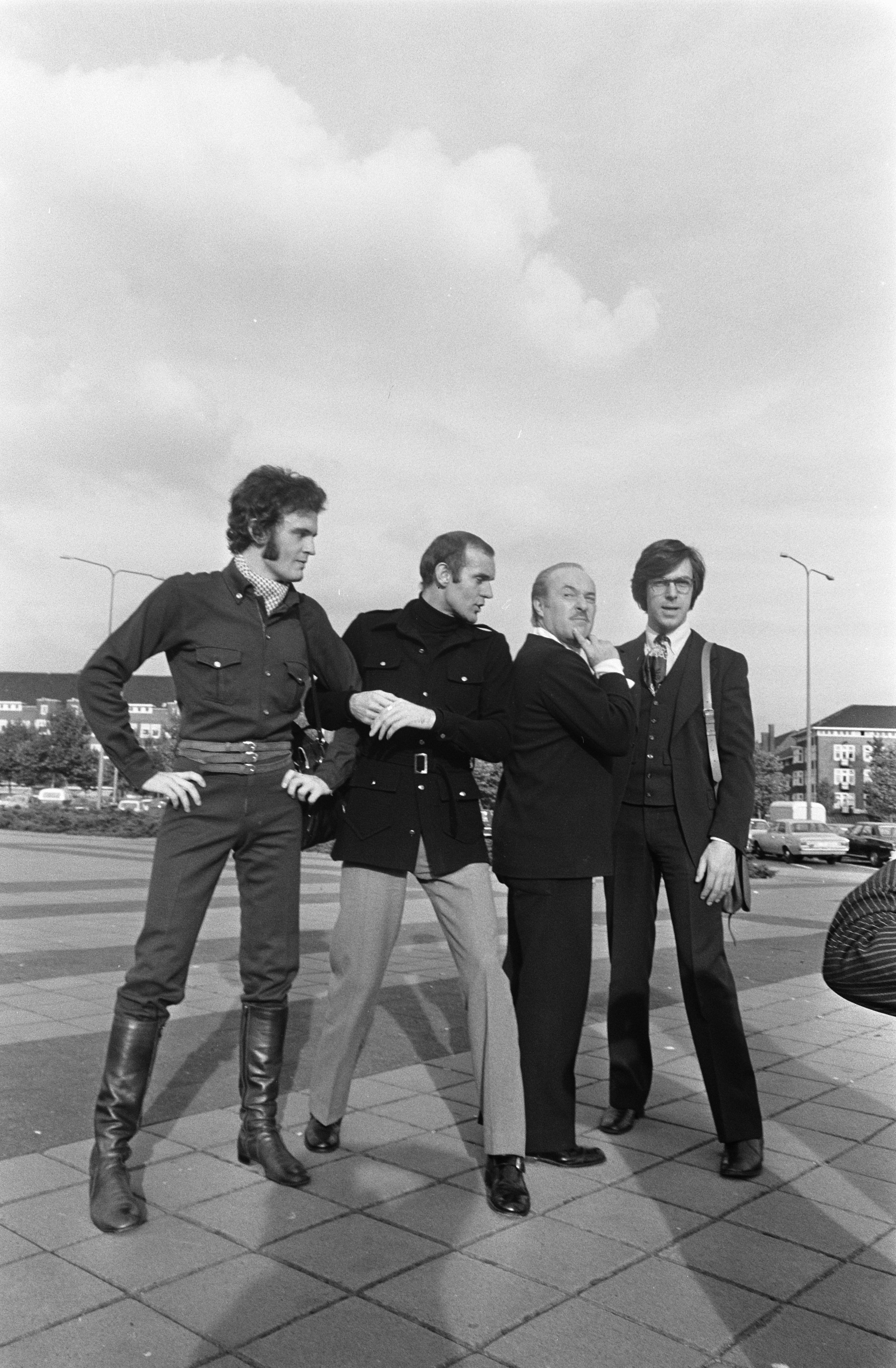 Fashion designers Sighsten Herrgård, Tom Gilbey, Jacques Esterel and Frans Molenaar (left to right) in 1969